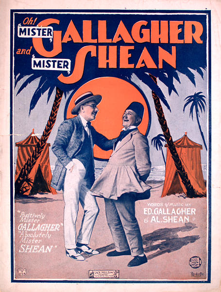 Mister Gallagher & Mister Shean sheet music